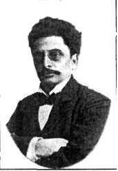 Bernhard Kagan (1866-1932), reproduction from a book